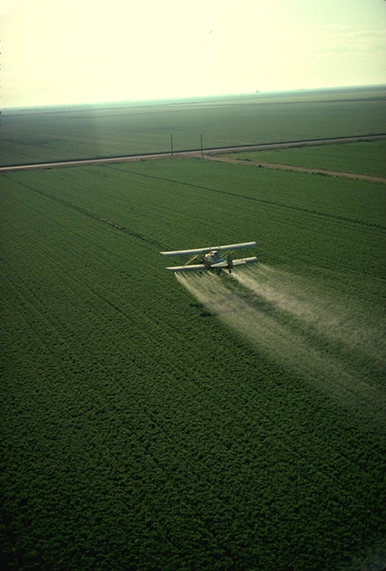 Spraying pesticide in California